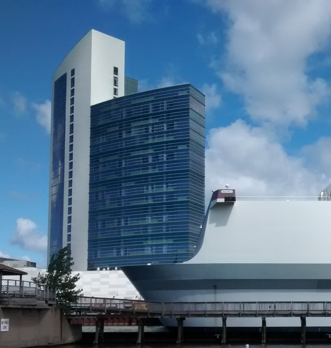 Blue Chip Casino, Hotel and Resort in Michigan City, Indiana.